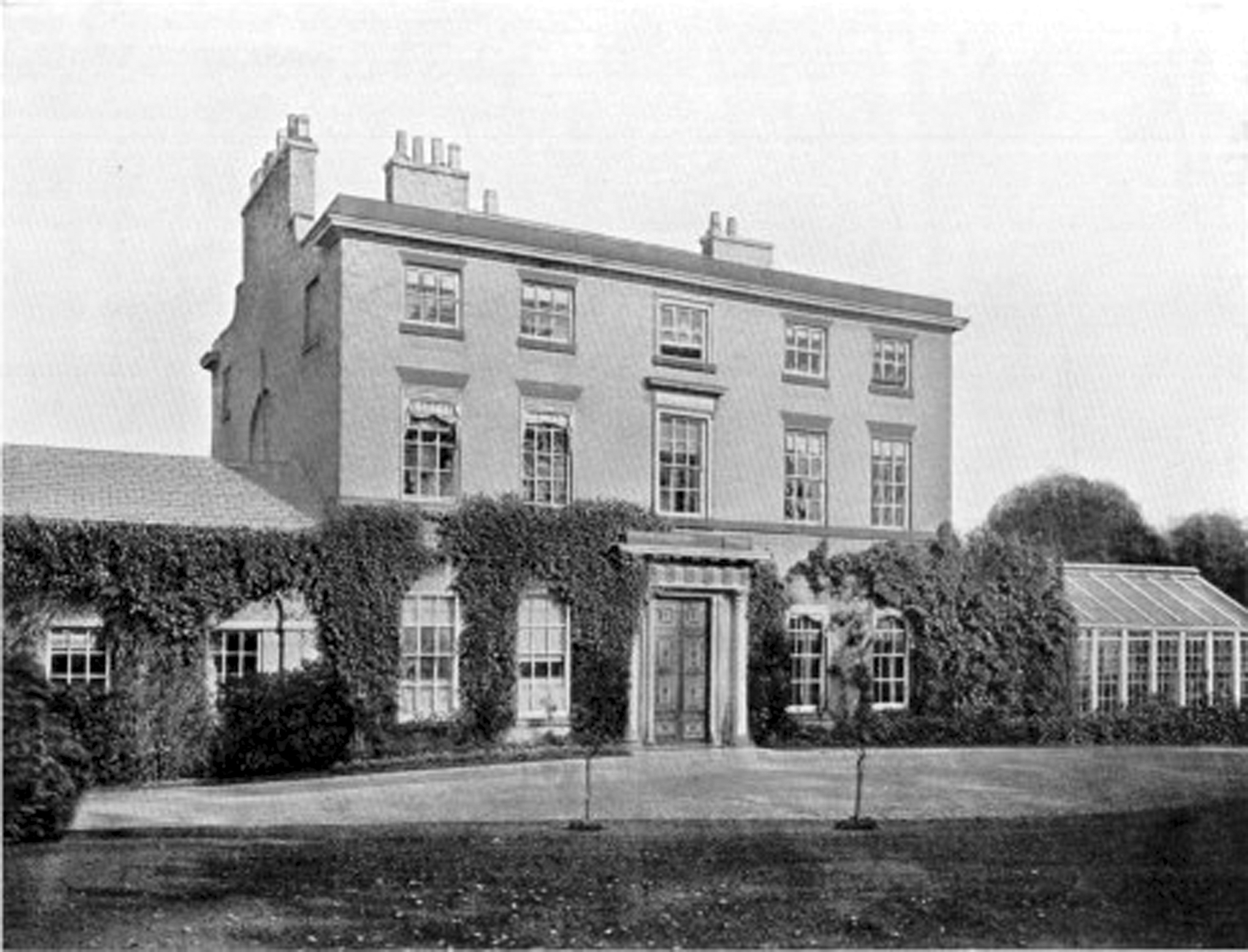 The Mount, birthplace of Charles Darwin